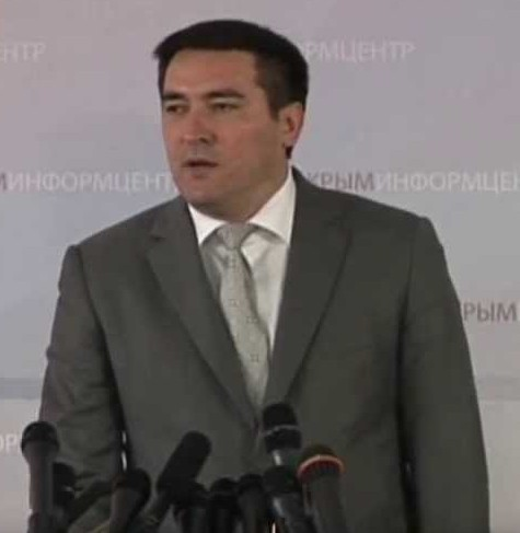 Rustam Temitgaliev, Crimean politician